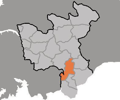 Map of Kumchon, Hwanghae-pukto, DPRK, 2006